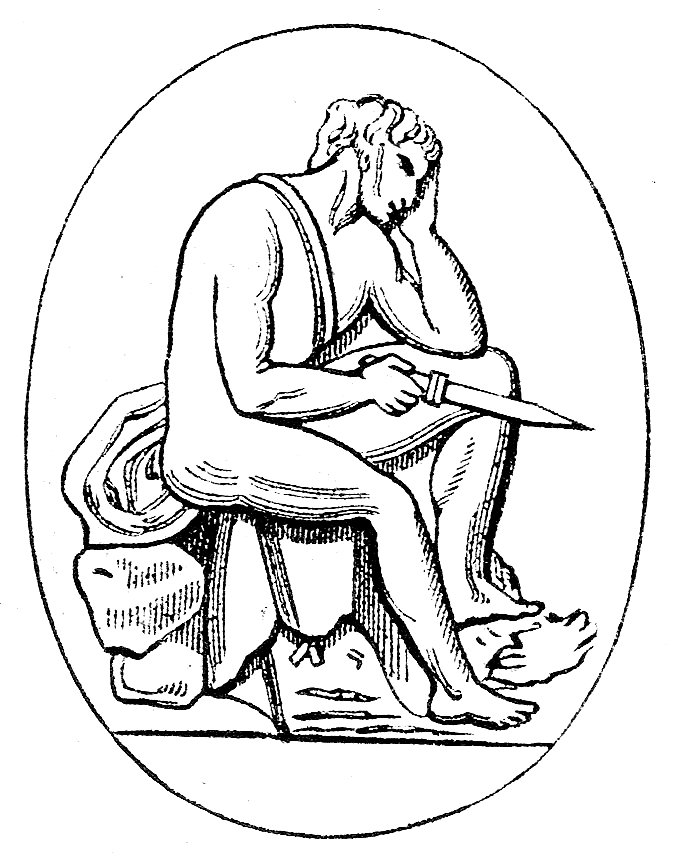 Illustration from "Illustrerad verldshistoria utgifven av E. Wallis. volume I": Ajax, the son of Telamon, king of Salamis.